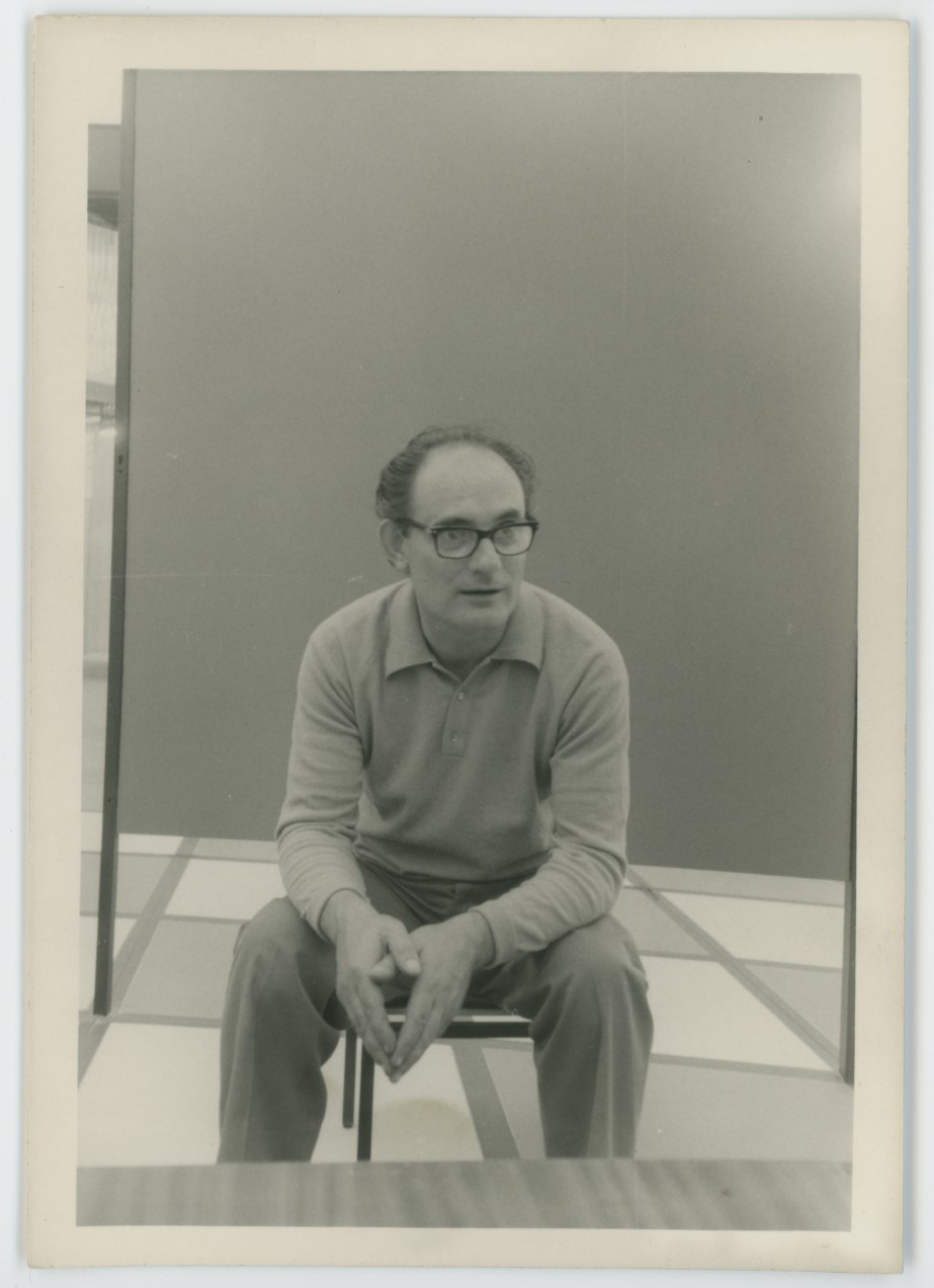 Nuvolo 1965